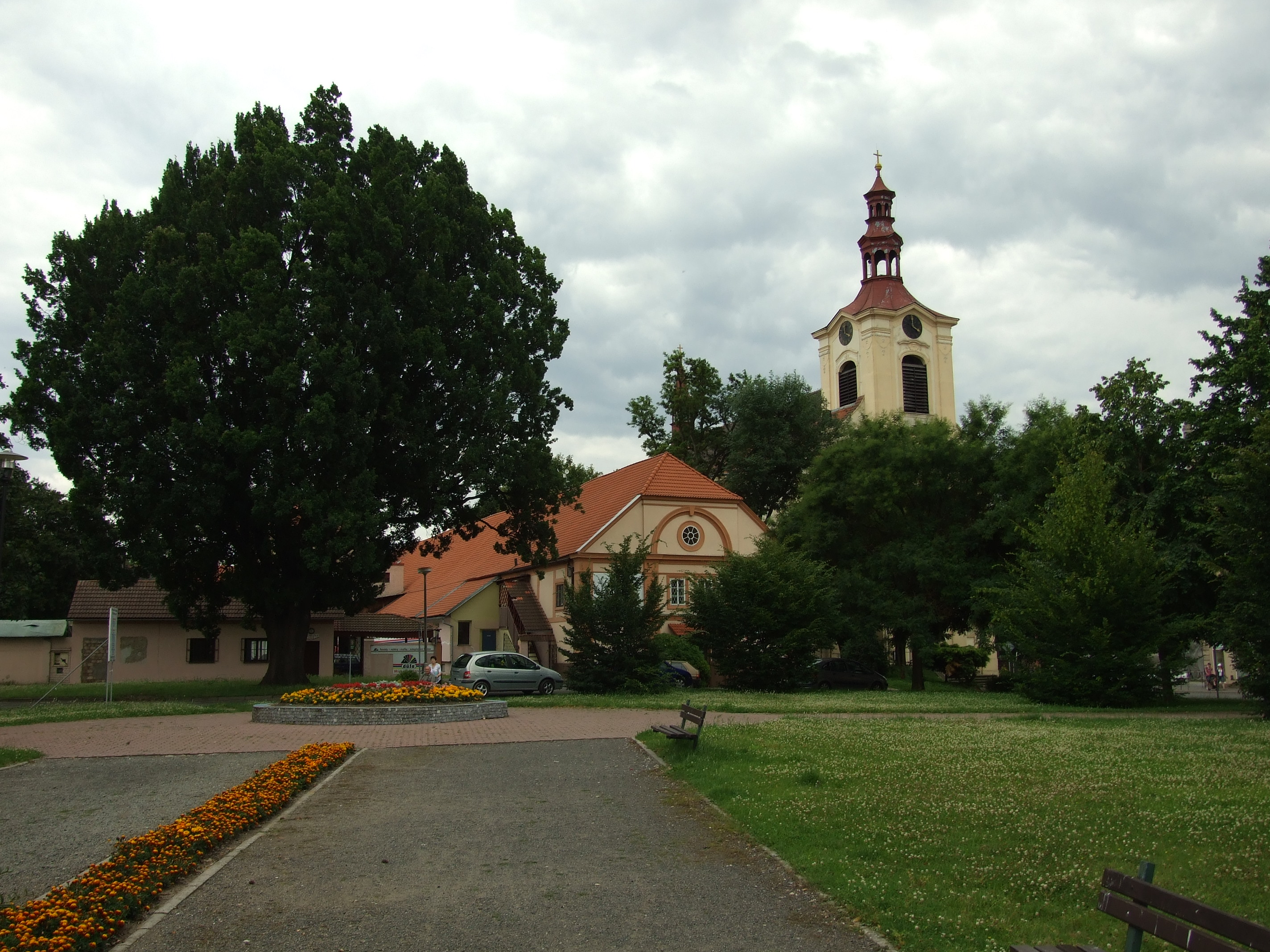 City of Lovosice, Litoměřice district, Ústí nad Labem Region, CZhelp